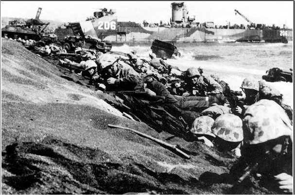 LSM 206 landing A Co 133 NCB D8's at 0935